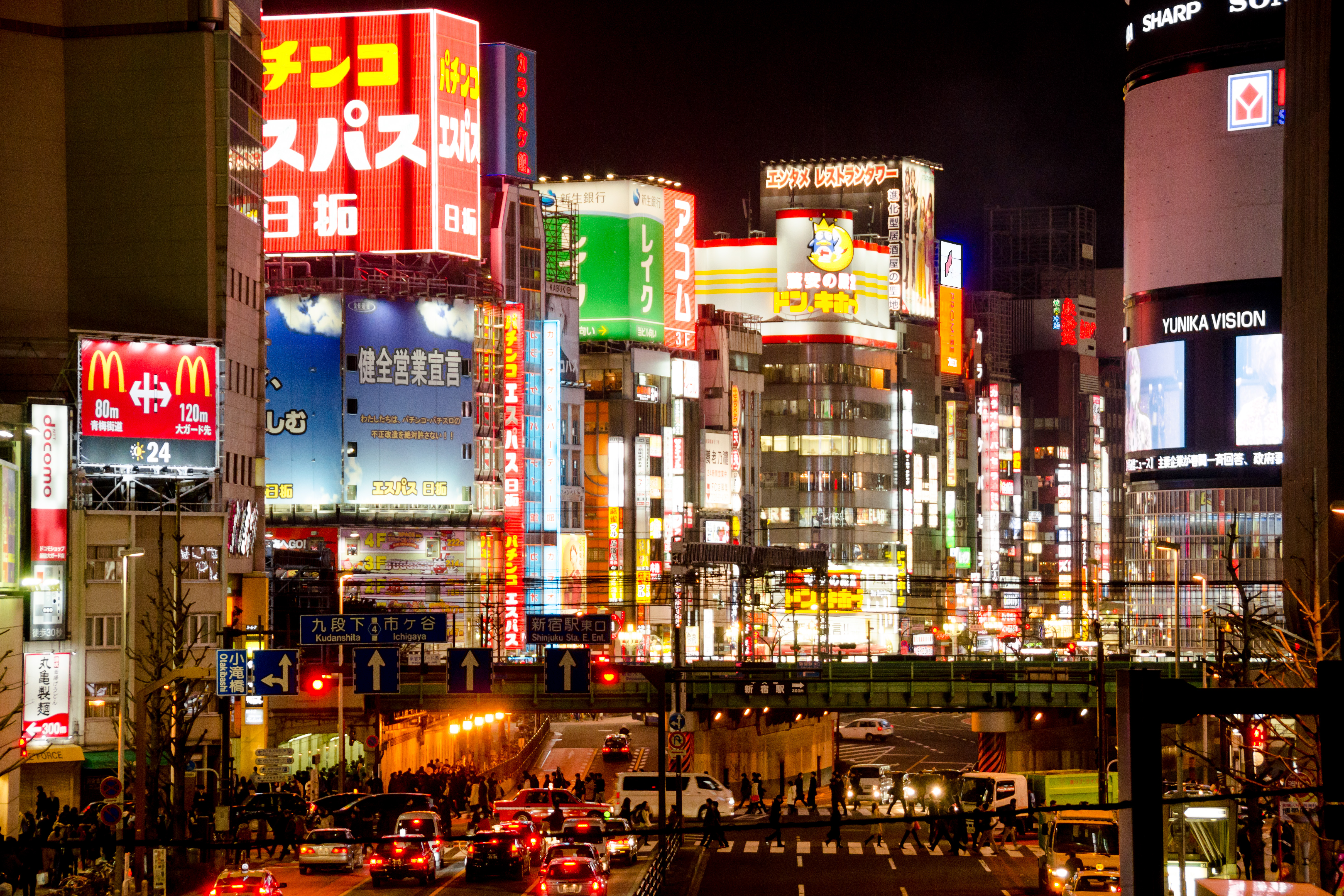 "Shinjuku oh-guard" and "Shinjuku oh-guard nishi crossing" viewed from "Shin-toshin footbridge", and view of "Shinjuku Kabuki-cho" (Shinjuku, Tokyo, Japan).